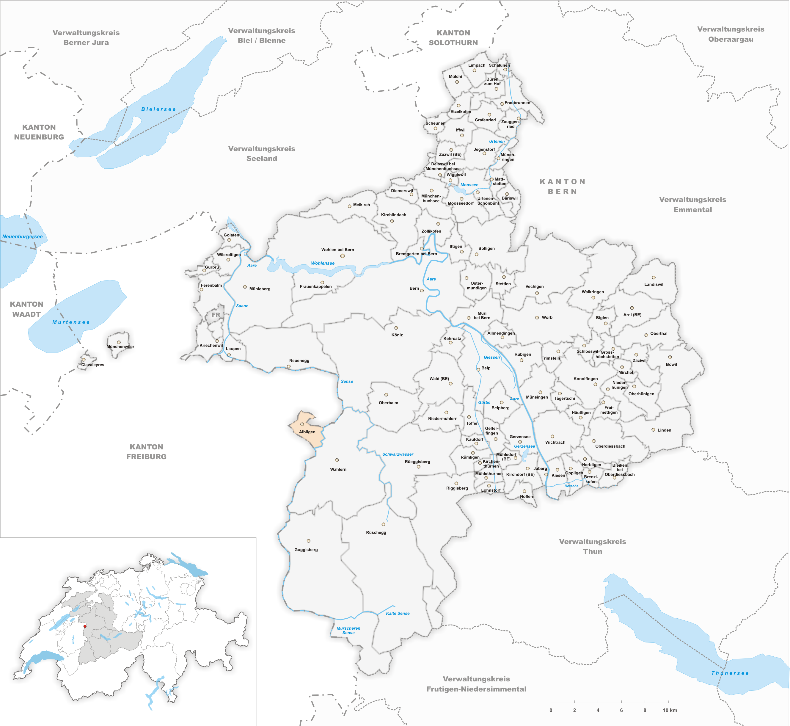 Municipality Albligen